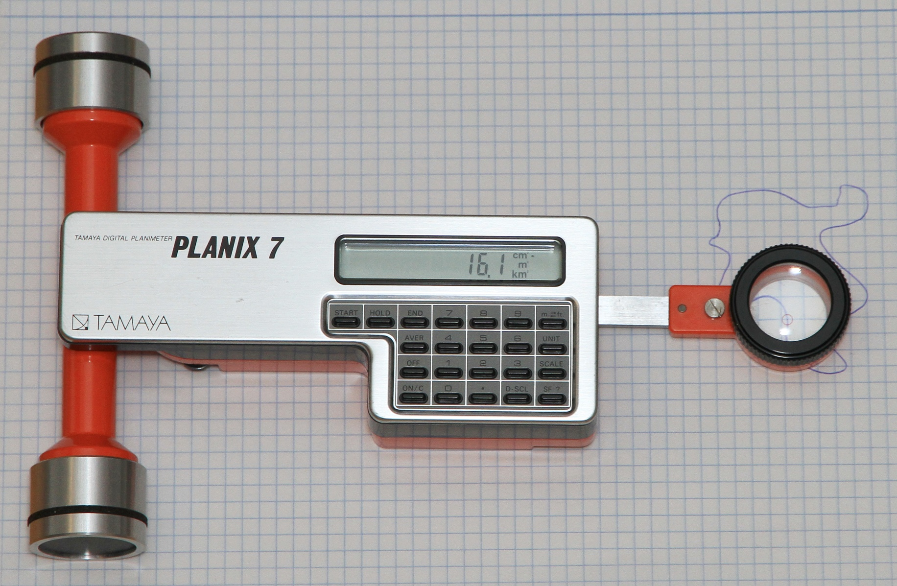 Digital planimeter, Tamaya Planix 7. This sample was manufactured in the late 1990s but was by 2010 (by upload of this picture) still available as new.